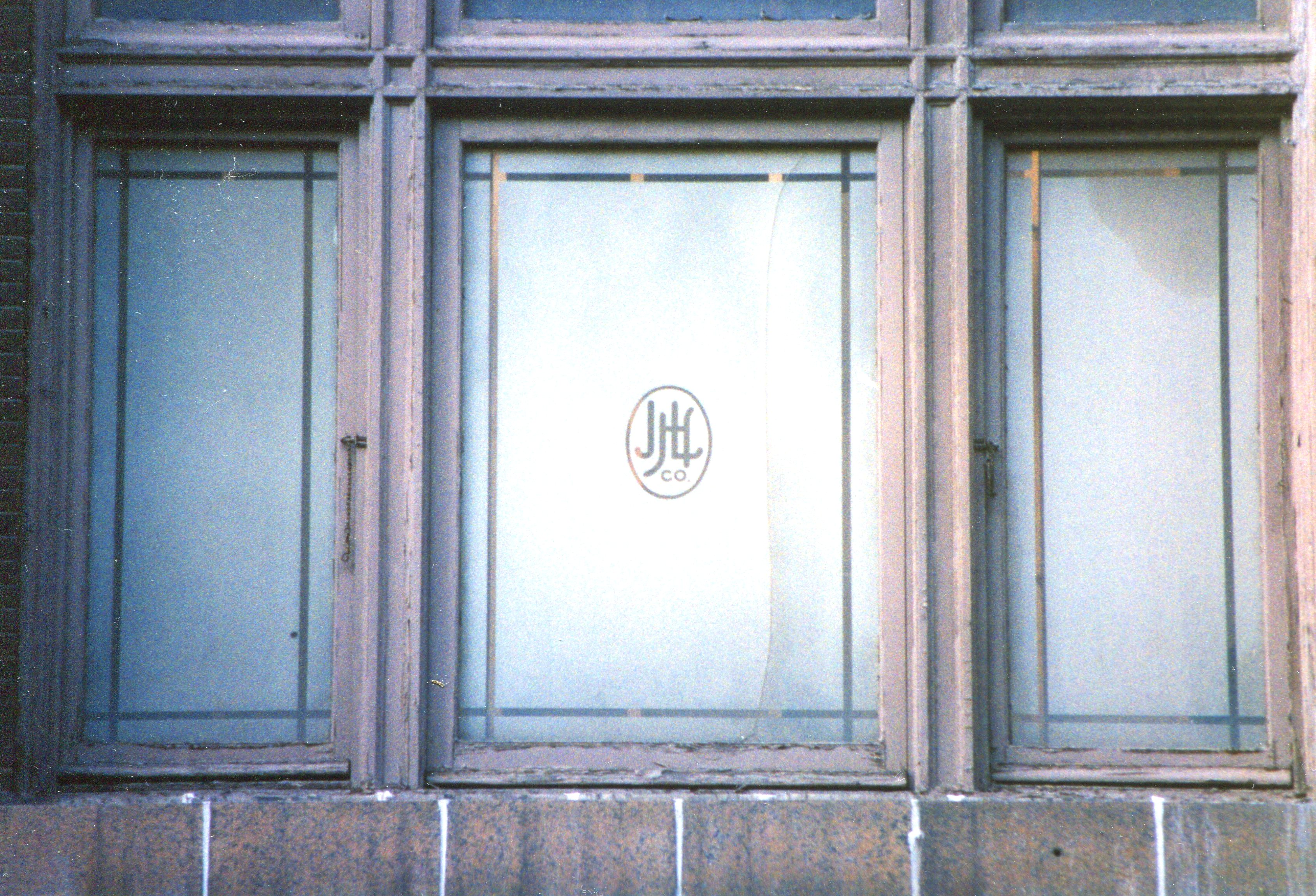 Window of the J. L. Hudson's flagship store in downtown Detroit — prior to building's 1998 demolition. With store's monogram on glass.